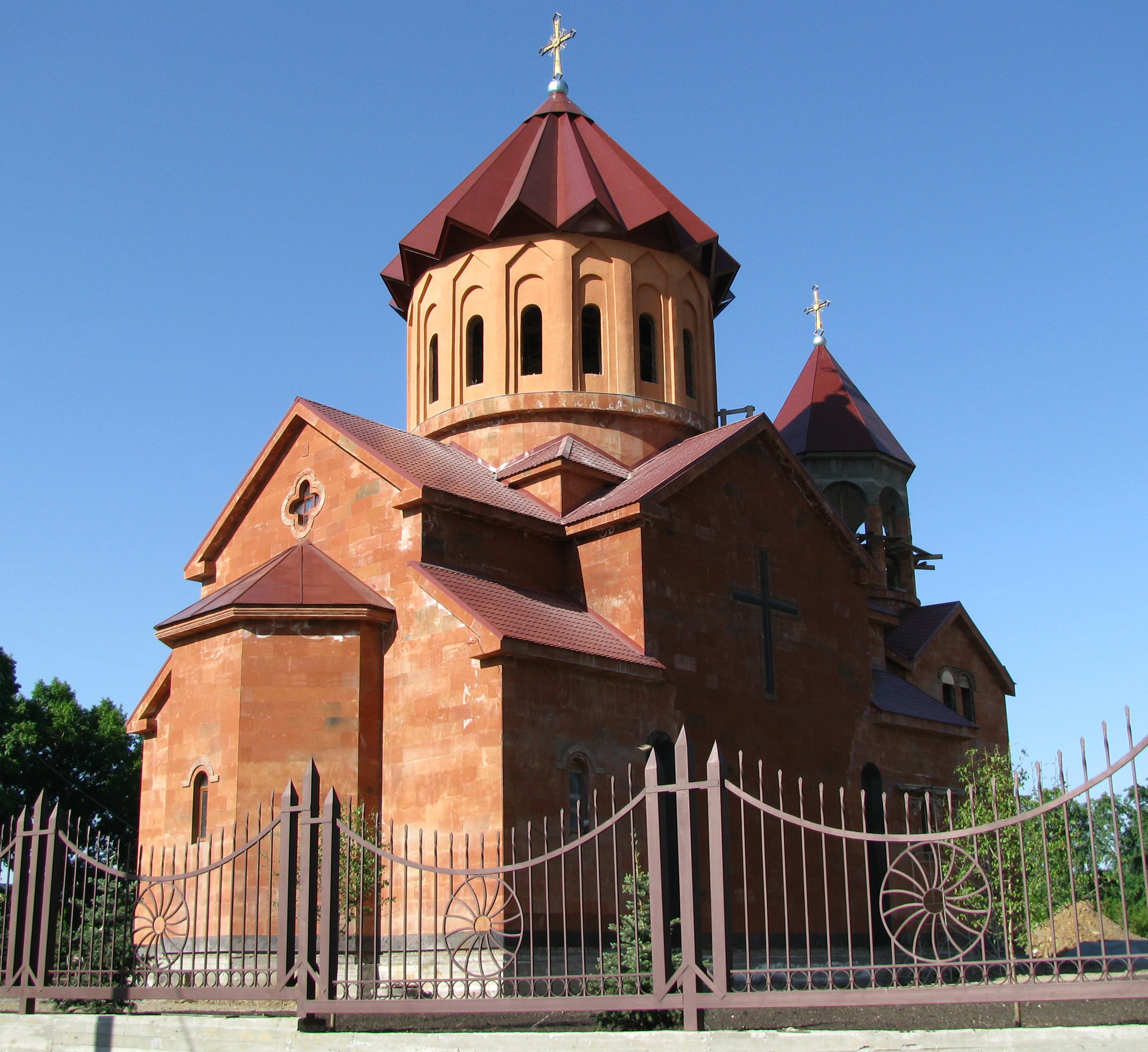 Armenian Church of St. Karapet, Yekaterinburg